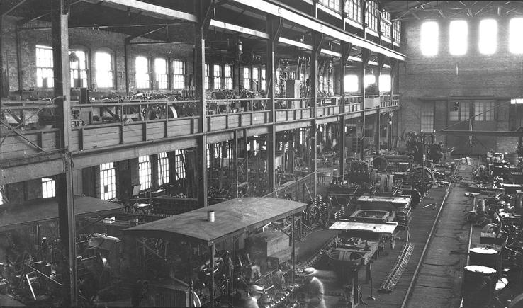 The Holt Caterpillar Co. factory in East Peoria, Illinois, shortly after being obtained from the bankrupt Colean Manufacturing Co. in 1910, shows how the plant looked while track-type tractors were being assembled.